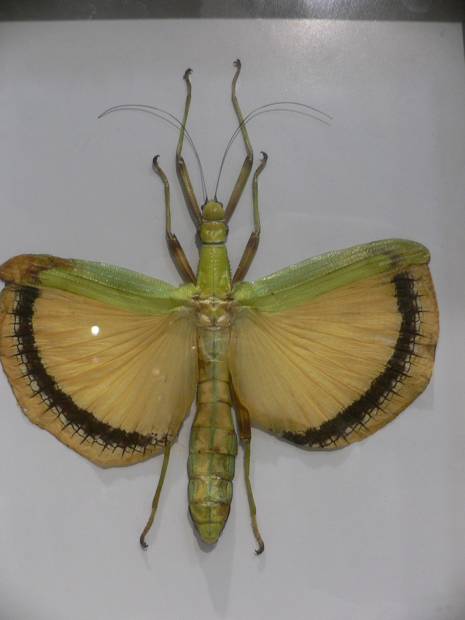 Pictures taken by myself at the Audubon Insectarium